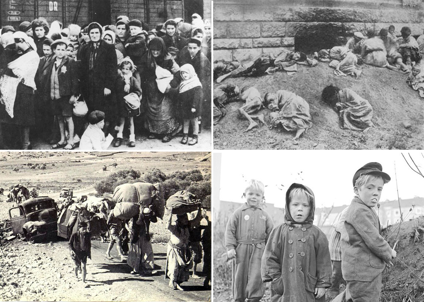 Ethnic_cleansing